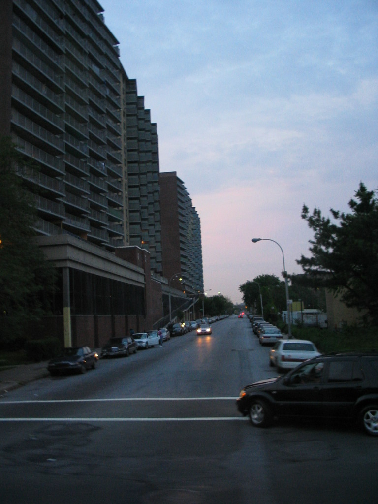 Somewhere on Linden Boulevard